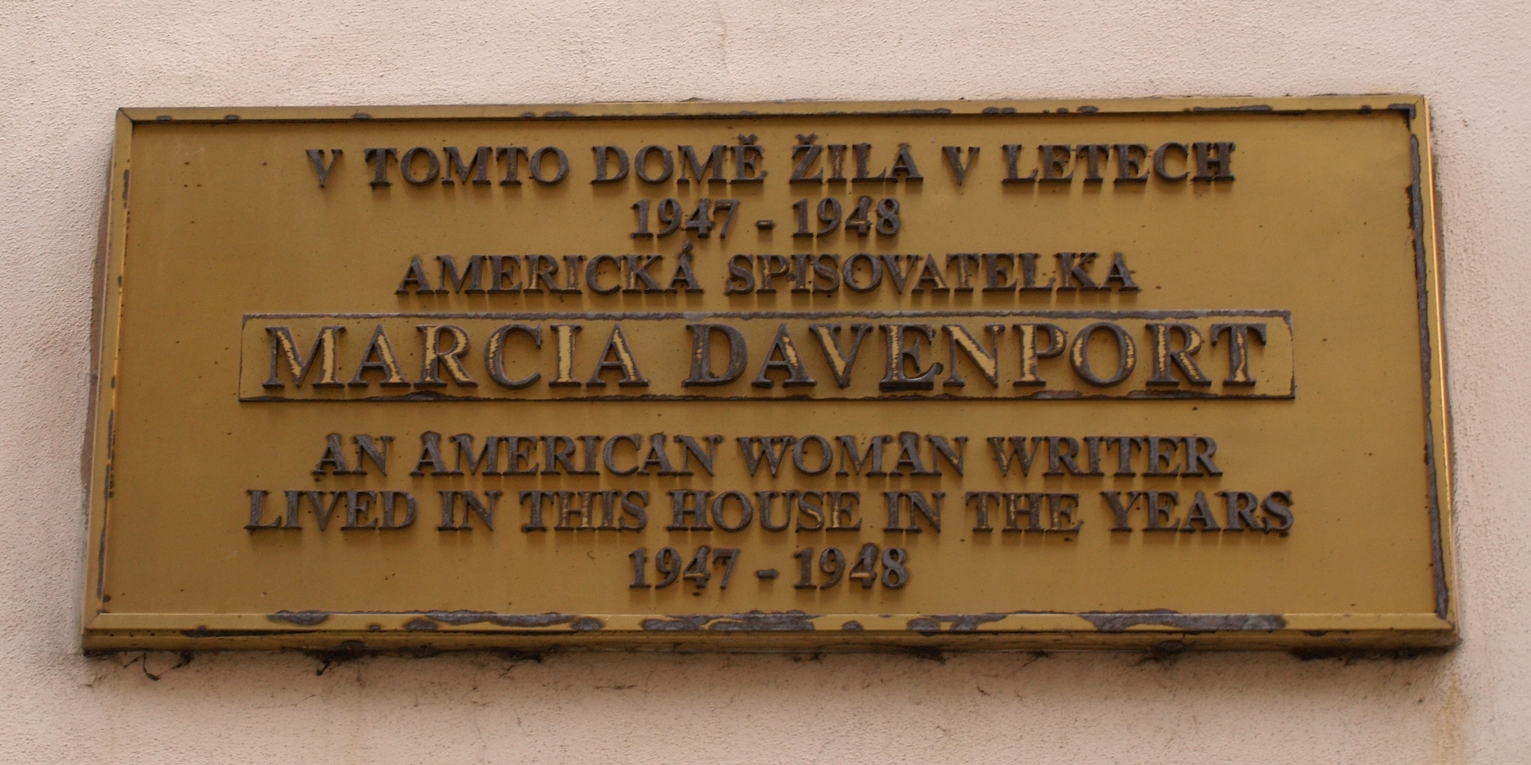 Faded plaque of American author and music critic Marcia Davenport in Prague-Hradčany